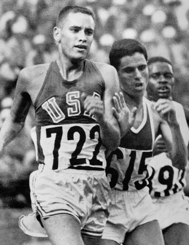 1964 Press Photo Track Runner Billy Mills Competing In the 10,000 Meter Race